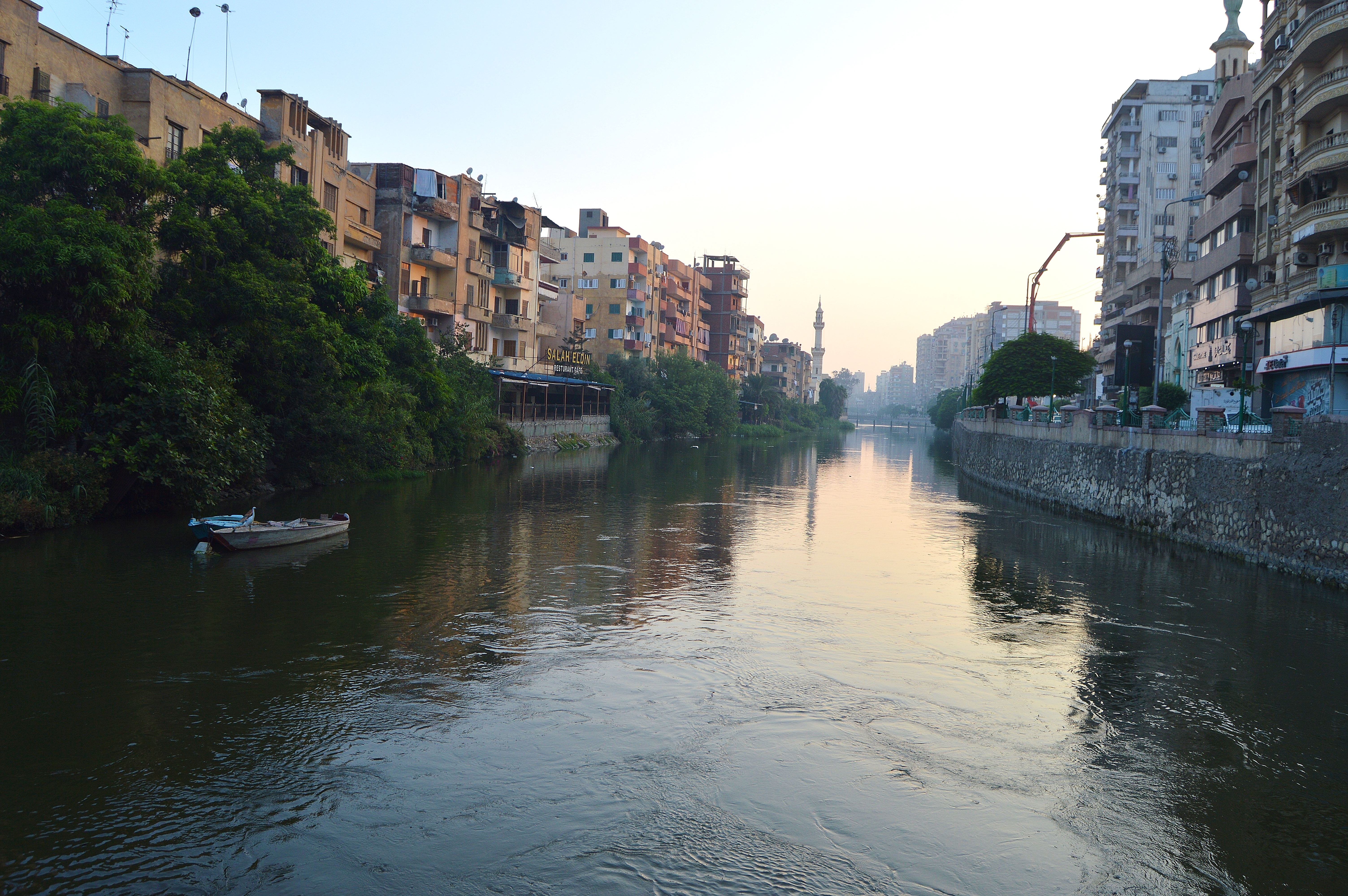 Zagazig, El-Hariry, Qesm Awal AZ Zagazig, Ash Sharqia Governorate, Egypt